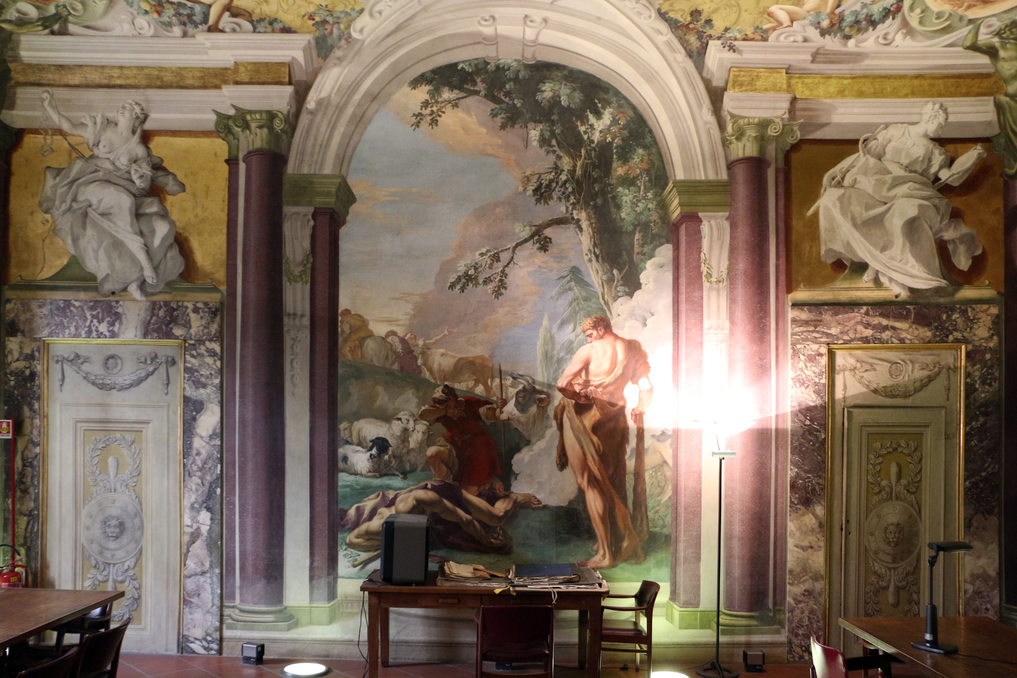 Sala di Ercole Palazzo Marucelli Fenzi in Florence